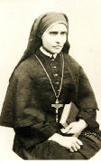 Giuseppa Scandola (1849-1903), Roman Catholic nun, venerable